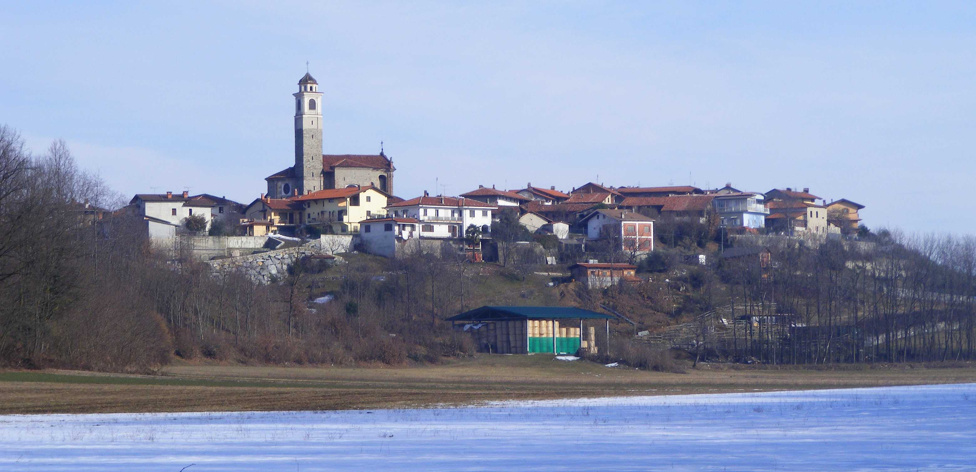 Vialfrè as seen from west (TO, Italy)